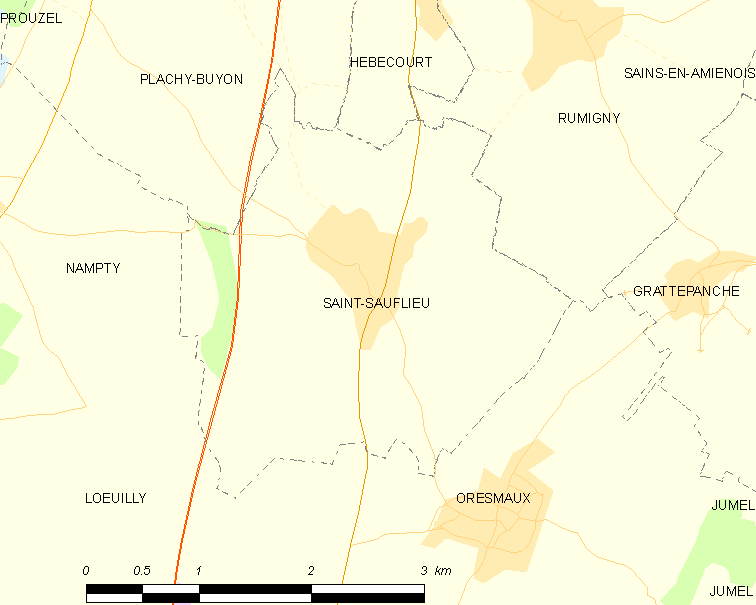 Map of French municipality Saint-Sauflieu